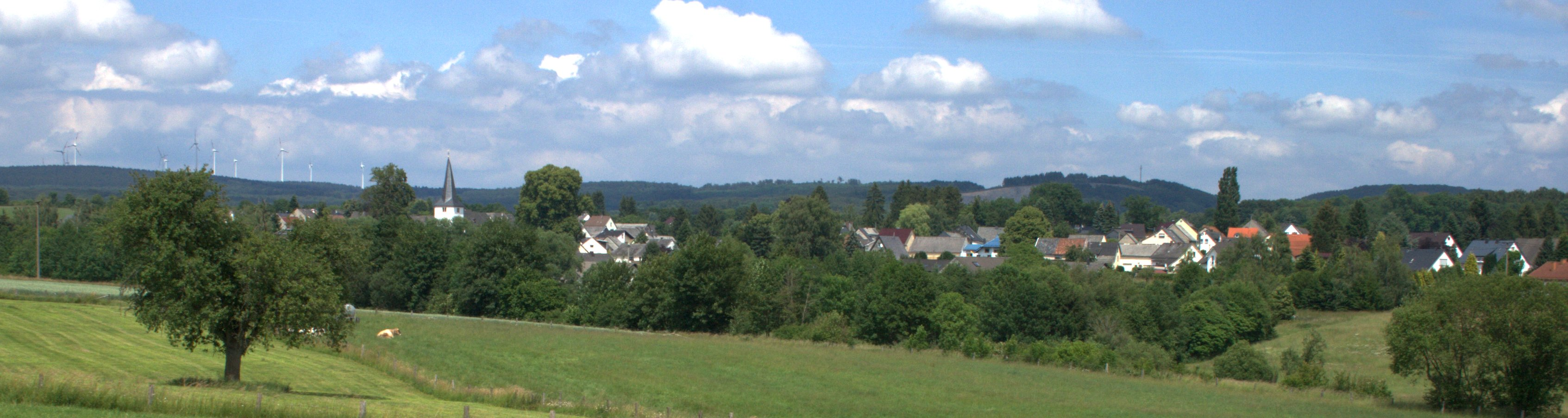 View over Rückeroth, Westerwald, Germany, from south west